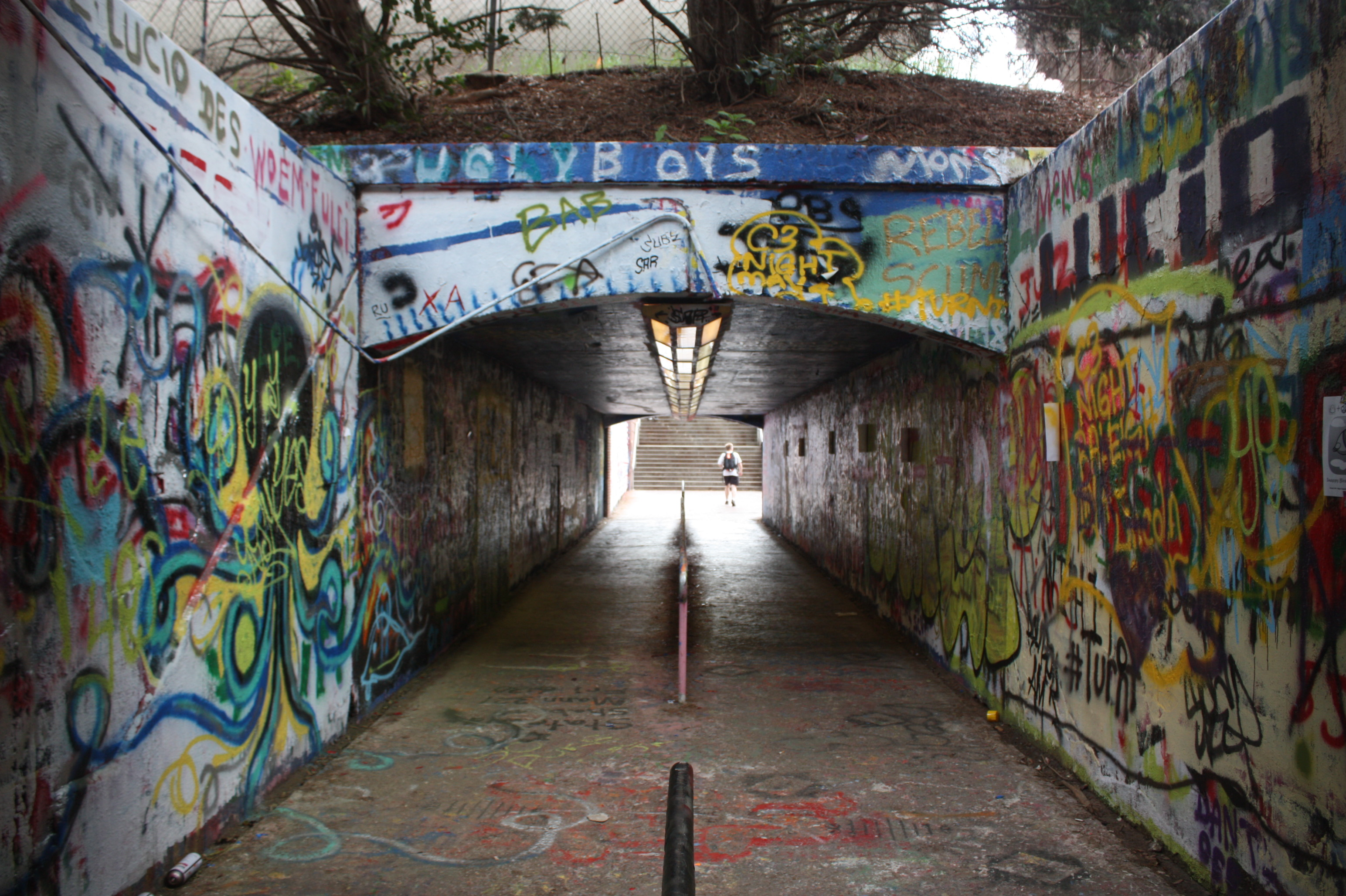 This is the free expression tunnel located on the North Carolina State University campus. It is a tunnel where students and non-students are able to graffi freely what they want to express.